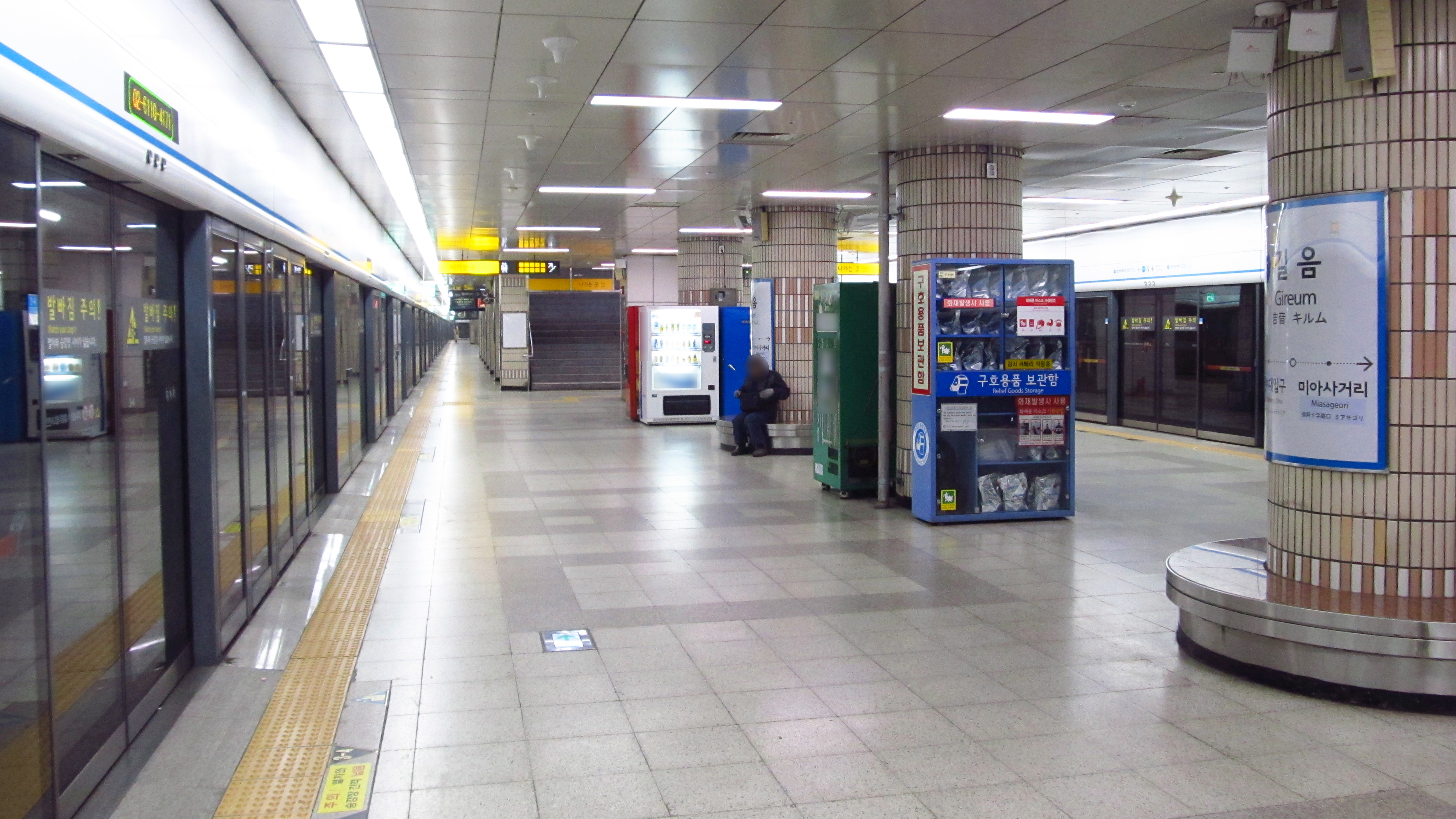 The platform at Gireum Station on Seoul Subway Line 4 in Seongbuk-gu, Seoul, Republic of Korea(South Korea)